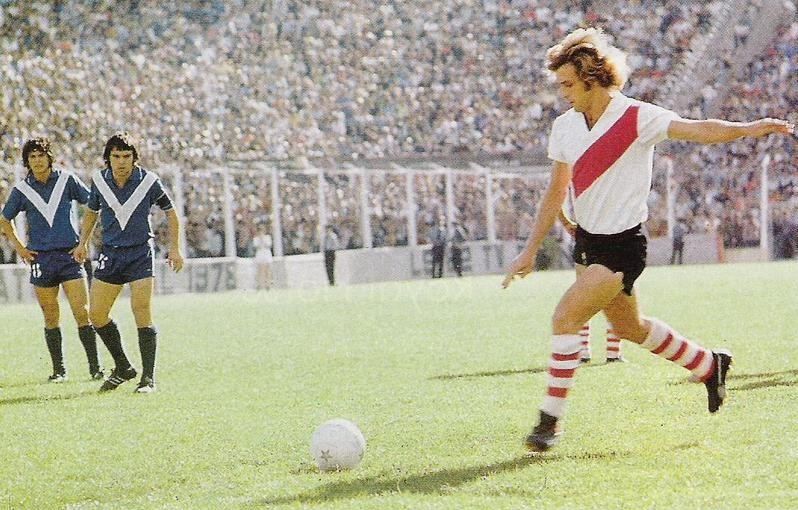 River Plate former player Enrique Wolff